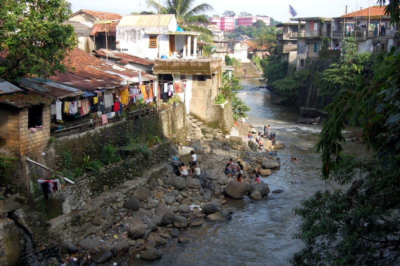 Ciliwung River in Bogor, Indonesia